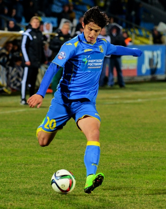 Sardar Azmoun